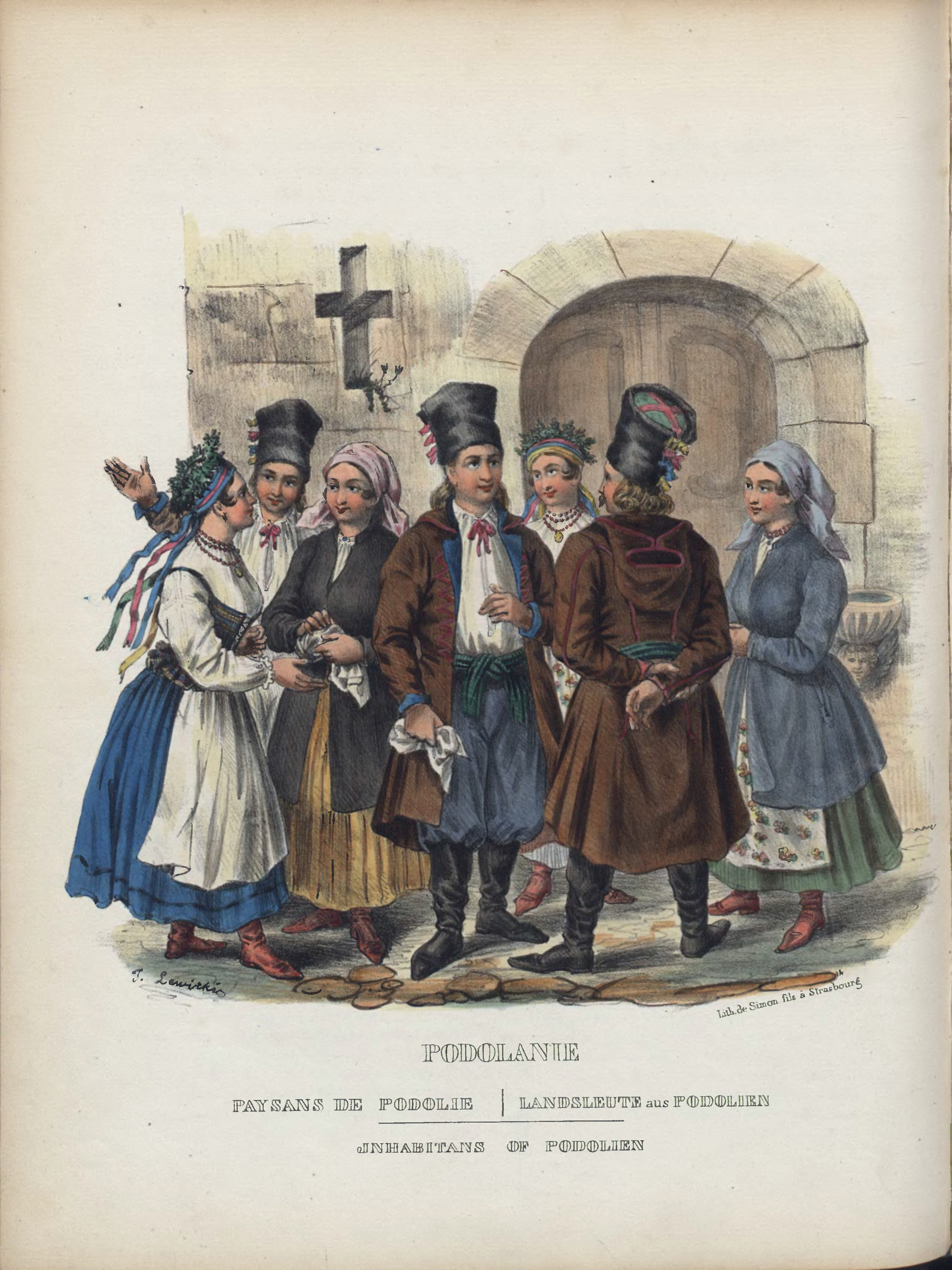 "Jnhabitans[sic] of Podolien"